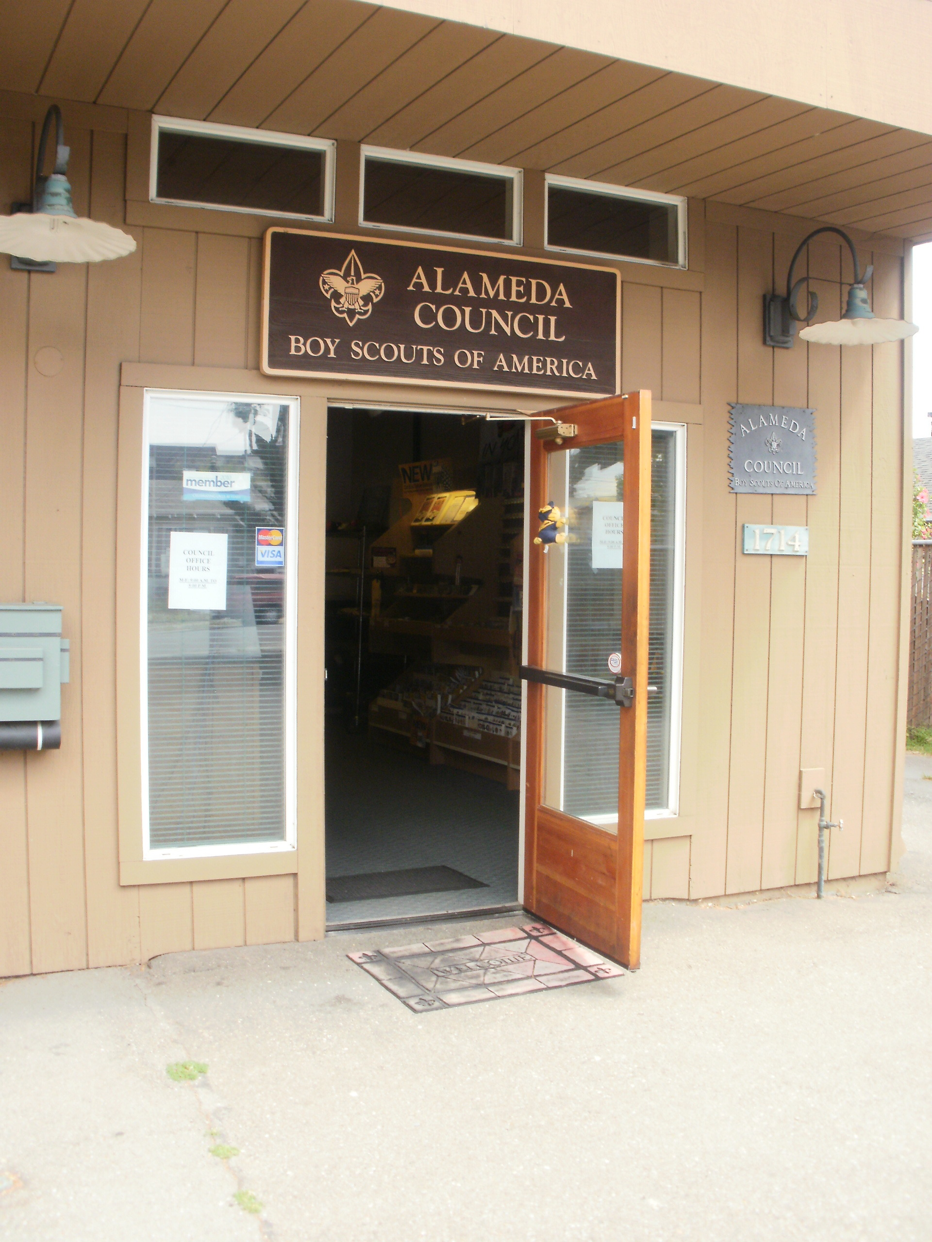 Alameda Council